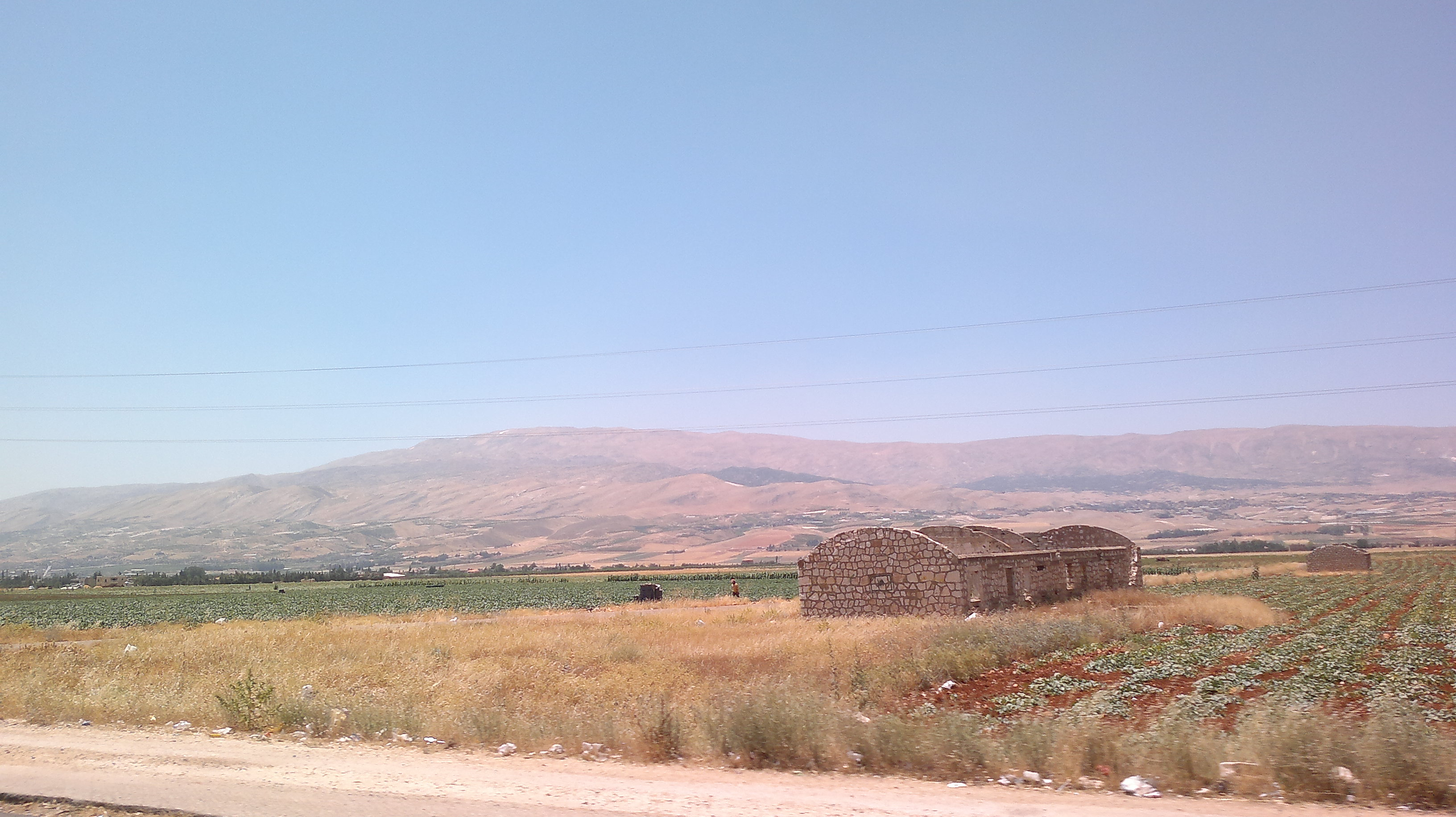 Beqaa valley, Lebanon.